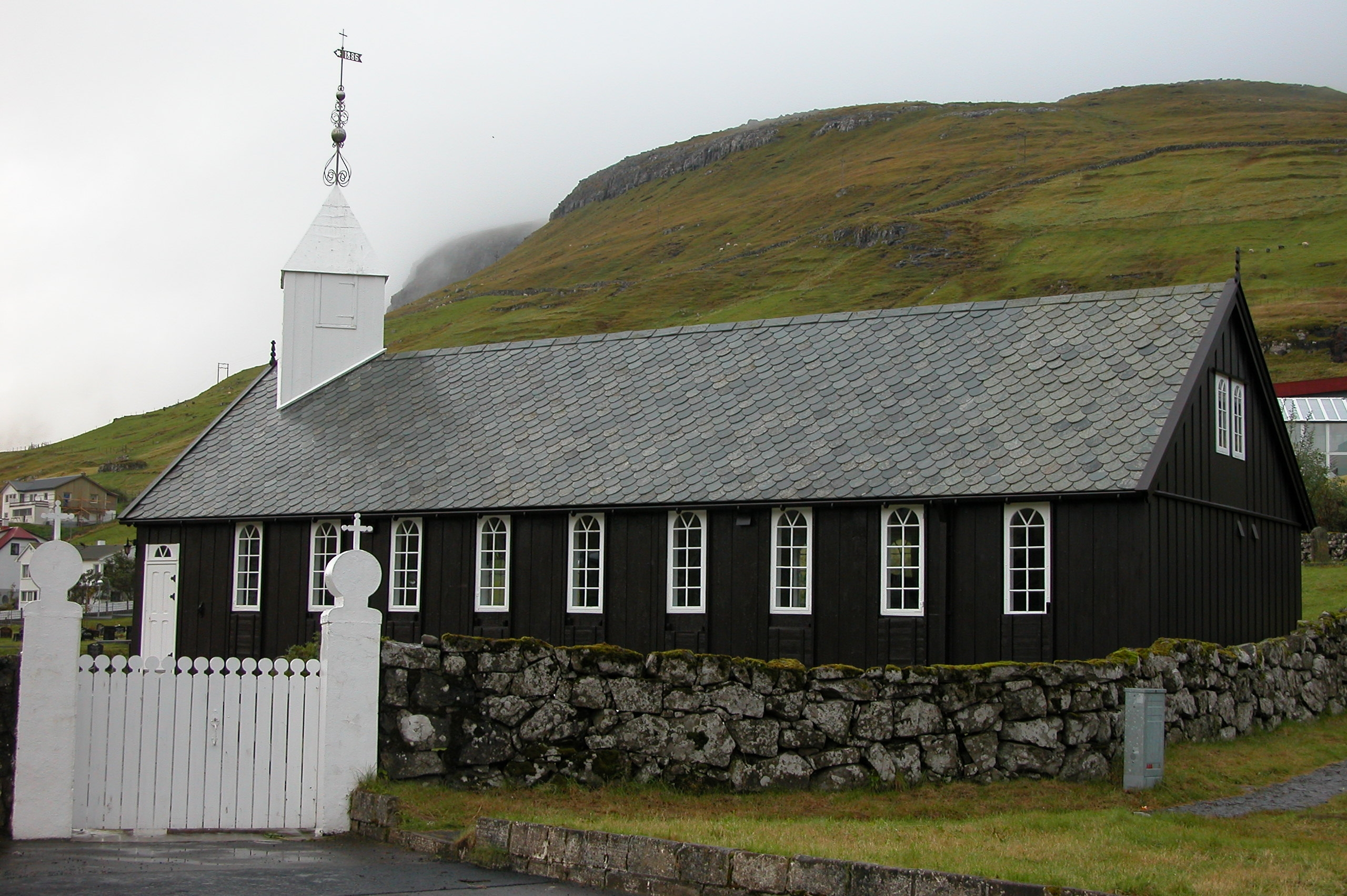 Church of Sørvágur on Vágar, Faroe Islands.